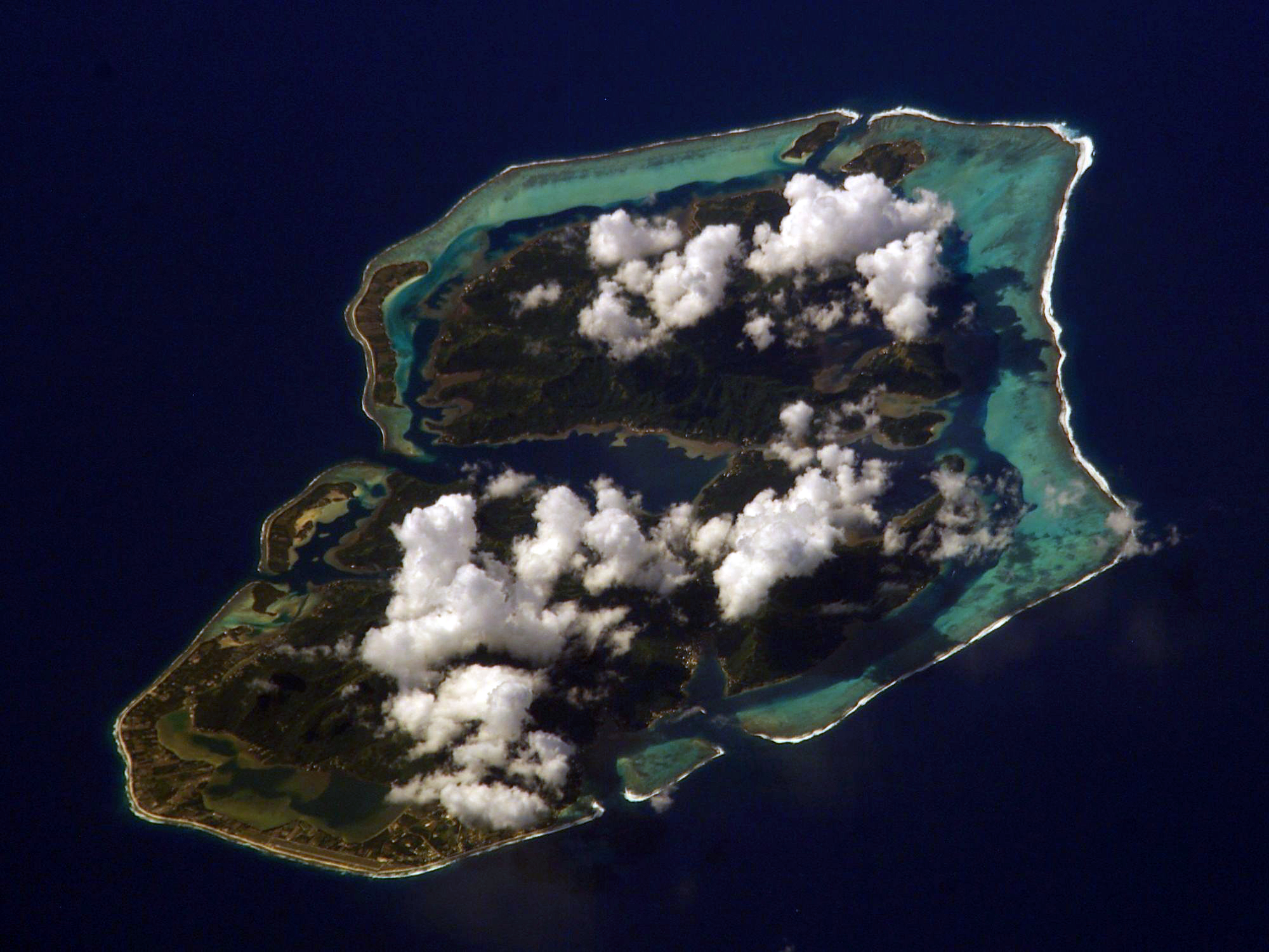 NASA astronaut image of Huahine Island (Society Islands, French Polynesia) in the Pacific Ocean